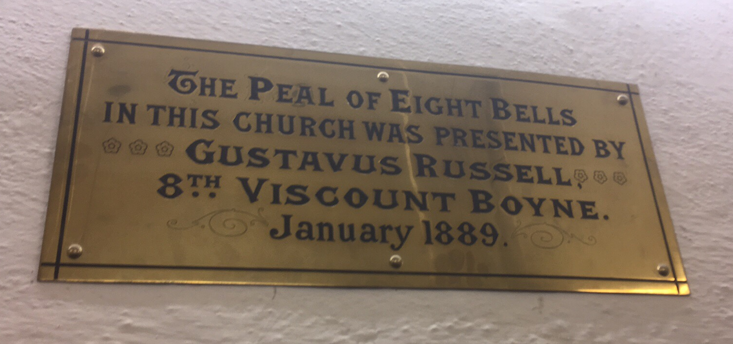 A photograph of a plaque in the ringing chamber of St. Brandon's Church, Brancepeth, stating 'The Peal of Eight Bells in this church was presented by Gustavus Russell 8th Viscount Boyne. January 1889'.